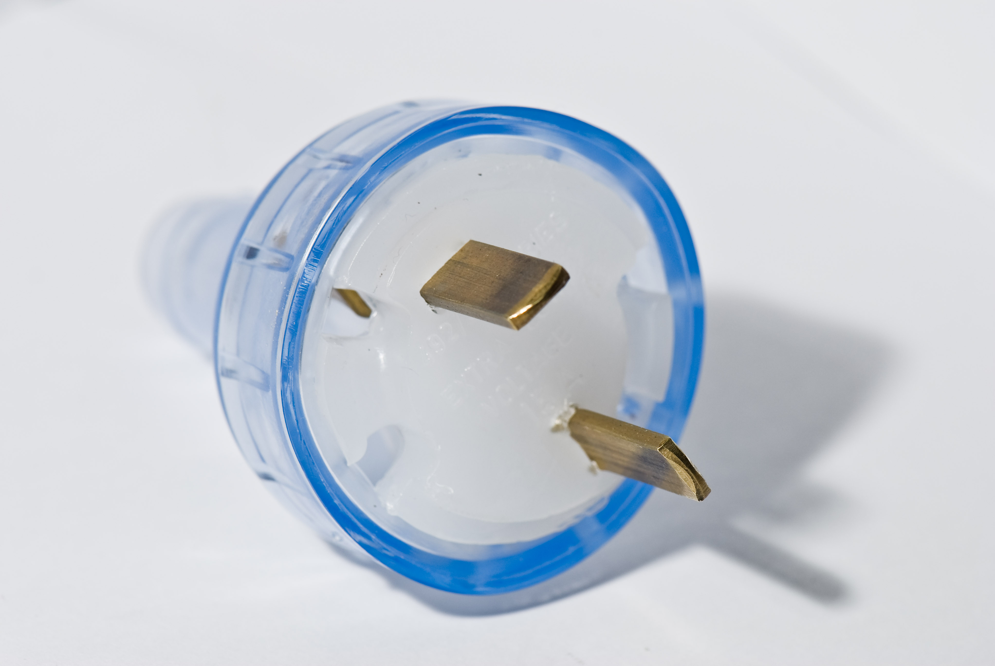 Clipsal 492/32 DC plug. Flat pin connectors in T configuration for DC (15 Amp)